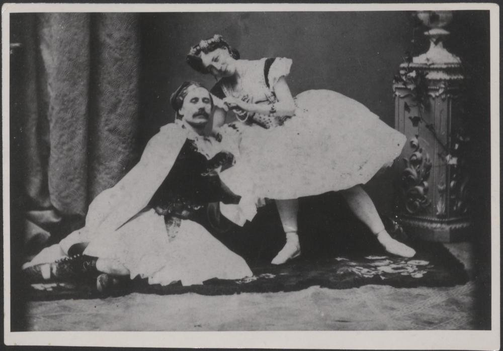 Kamila Stefańska and Antoni Tarnowski as Médora and Conrad from "Le Corsaire", about 1865